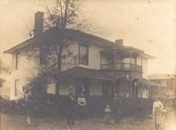 Richmond Villa, estate of Abraham Law (and later others)